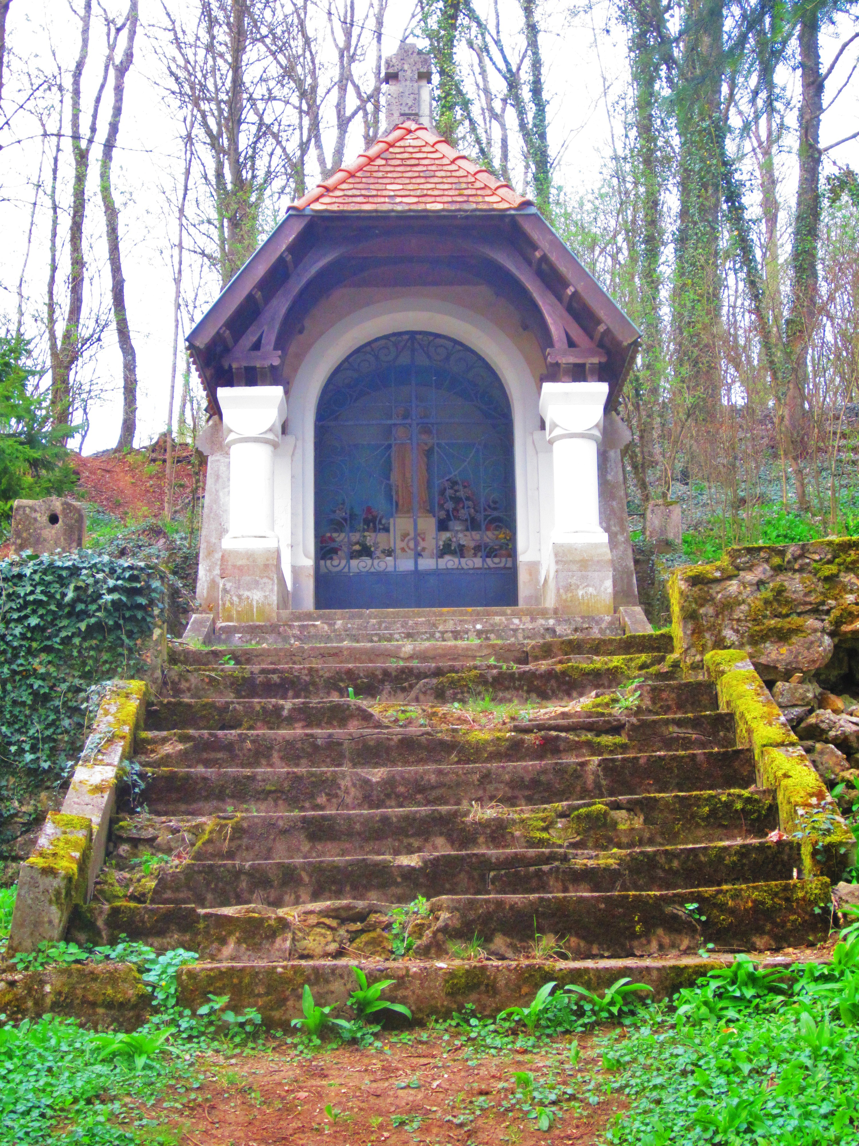 Bouxieres Froidmont chapel